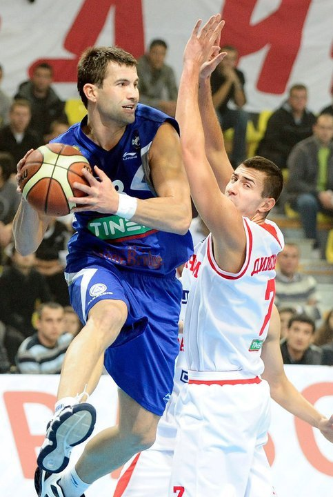 грнчаров